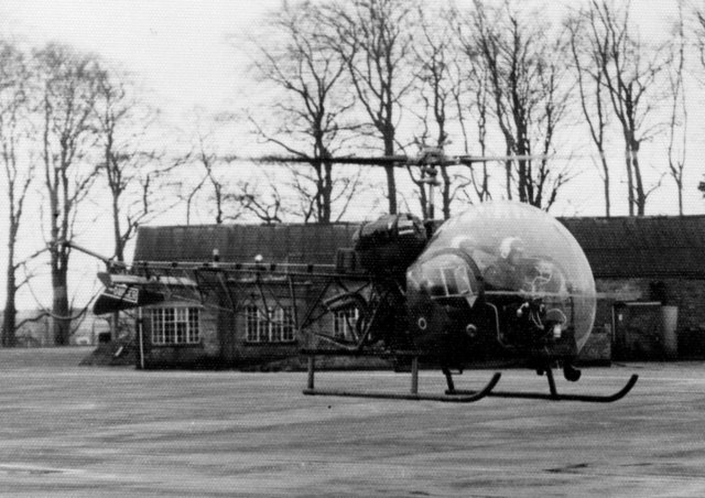 Copter landing at St Lucia's Barracks, Omagh